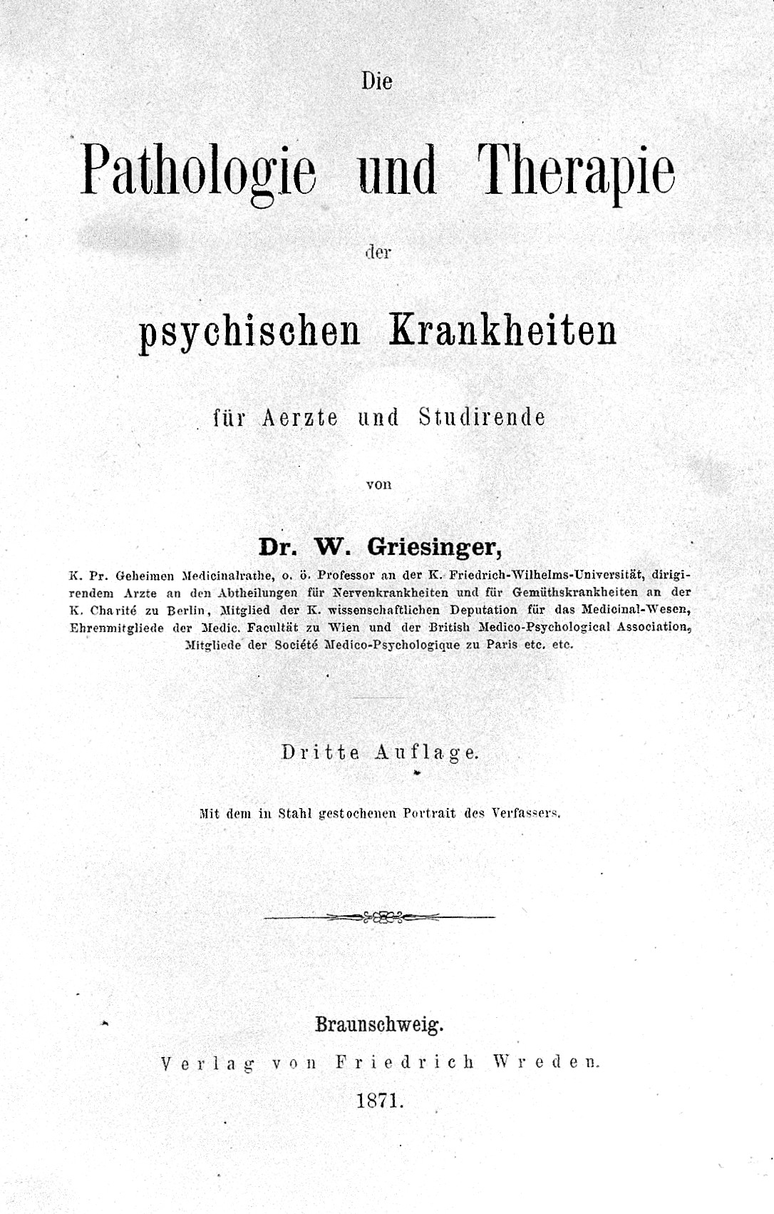 Title page General Collections Keywords: Wilhelm Griesinger